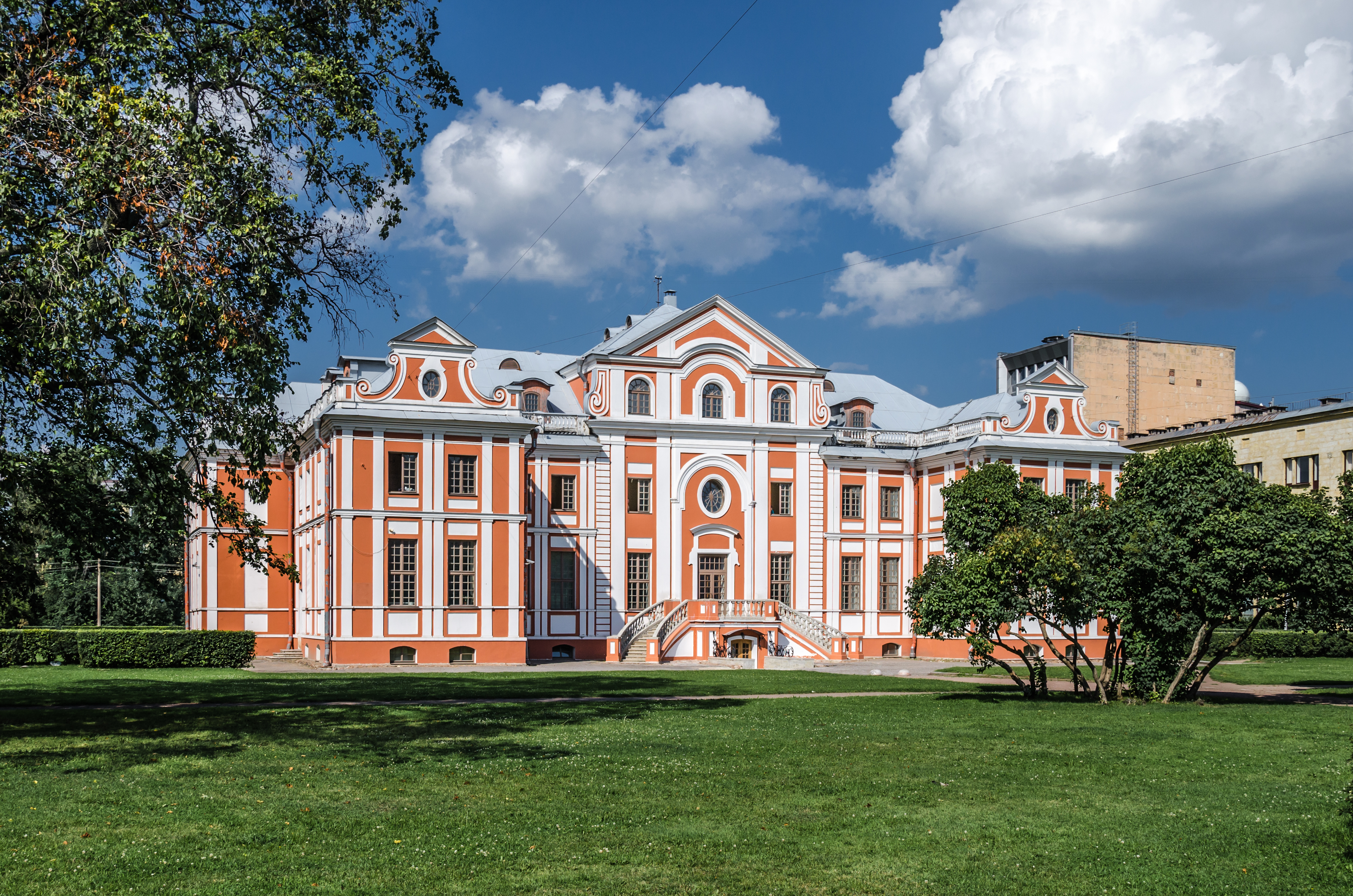 Kikin palace in Saint Petersburg